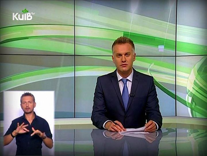 Igor Bondarenko, TV Interpreter